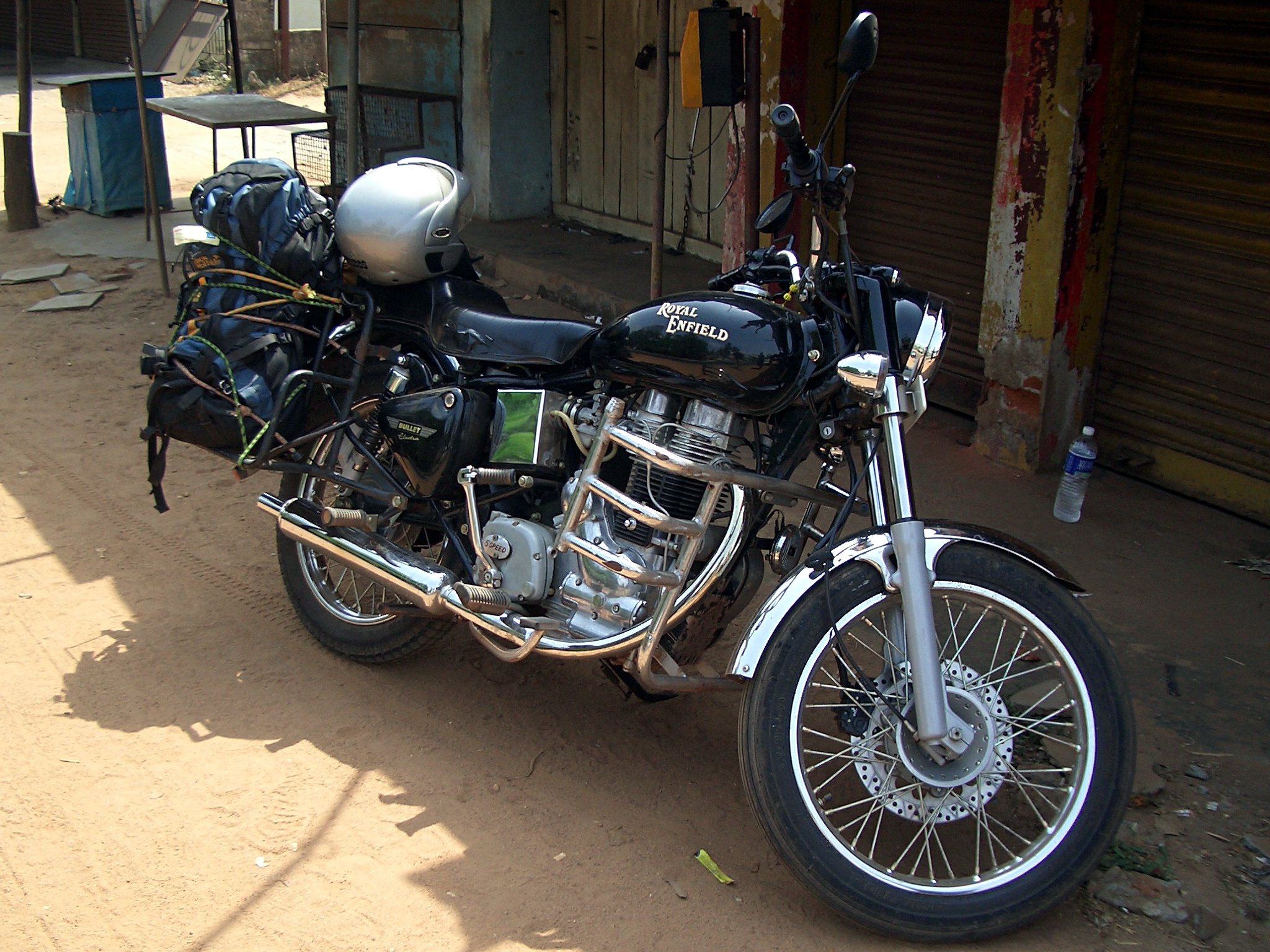 Royal Enfield Bullet Electra 350cc (manufactured 2008) photographed in Karnataka, India.